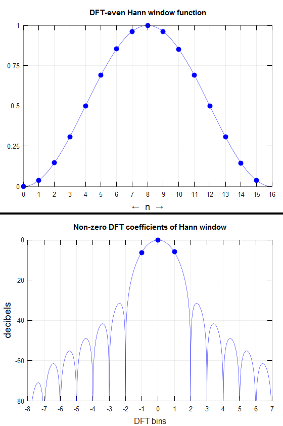 The main point is to illustrate that the N-point DFT (discrete Fourier transform) of an N-point DFT-even Hann window function has only 3 non-zero coefficients. The other N-3 samples of the DTFT (bottom figure) coincide with zero-crossings of the DTFT. Higher-order "Cosine-sum windows" have more non-zero DFT coefficients. Wikipedia article Window function contains a link to this figure.